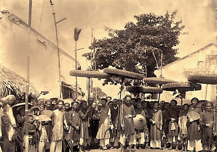 Quan Tổng-Ðốc Hà Nội và đoàn tùy tùng vào ngày 14-07-1884